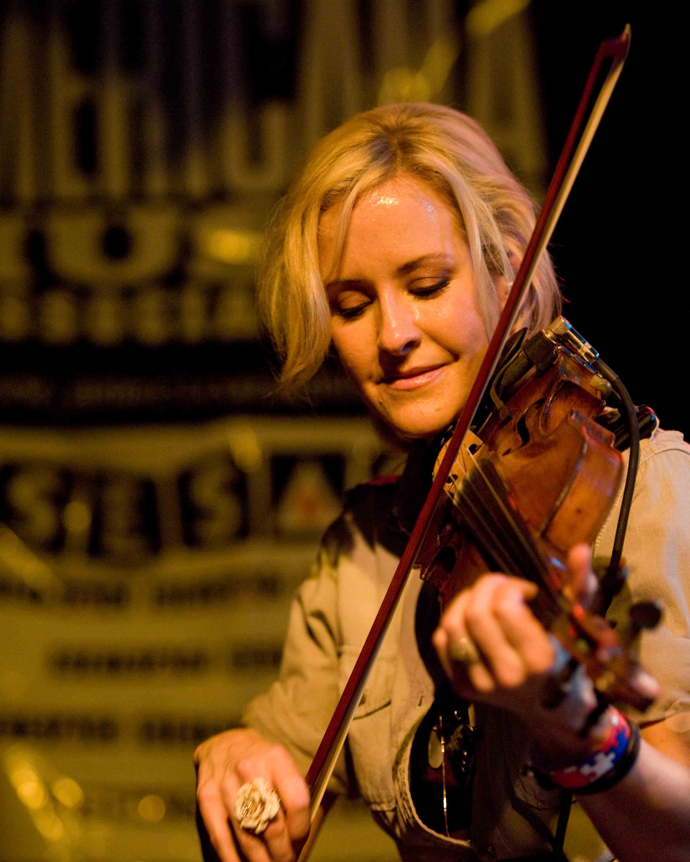 Martie Maguire of the Court Yard Hounds (of Dixie Chicks fame) at Antone’s, SXSW, Austin, Texas 3-18-10